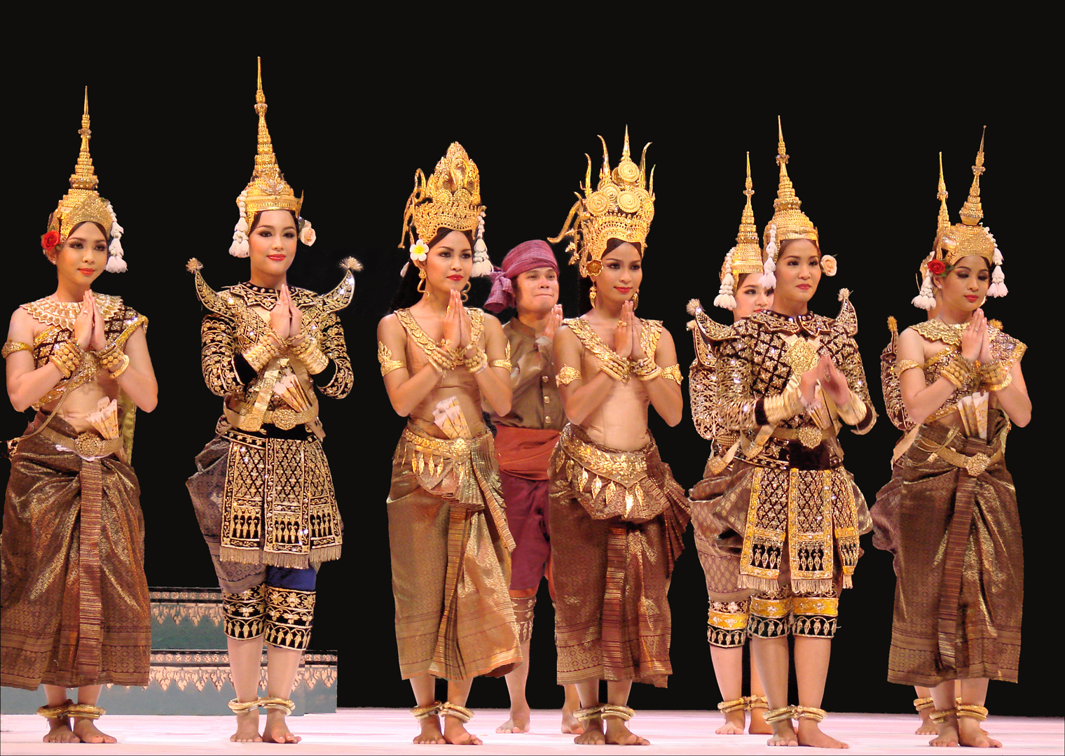 The Royal Ballet of Cambodia at curtain call. This was a performance of a dance drama titled 'Apsara Mera' in Paris, France.